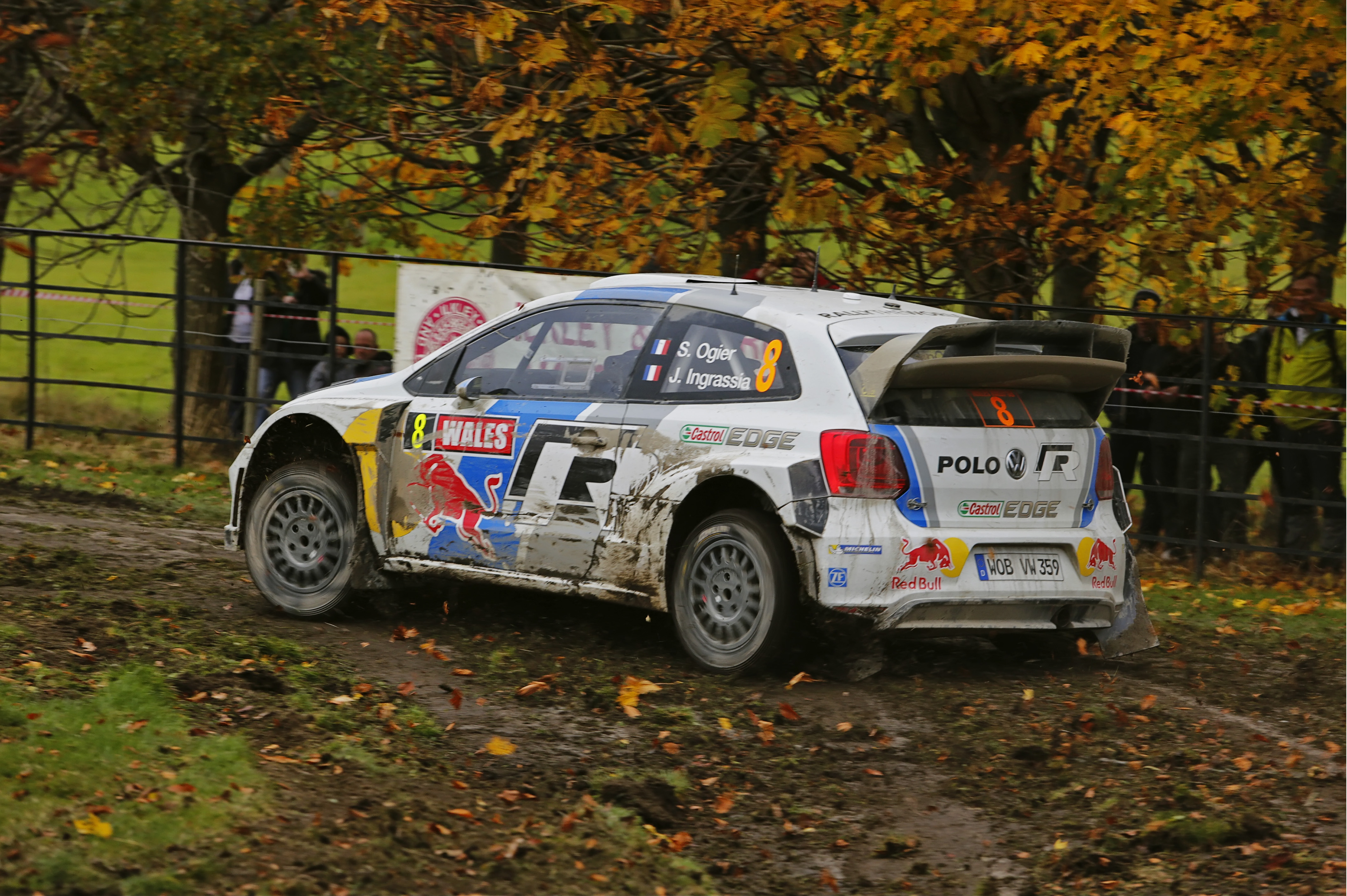 Sébastien Ogier and co-driver Julien Ingrassia in their VW Polo R WRC at the 2013 Wales Rally GB.